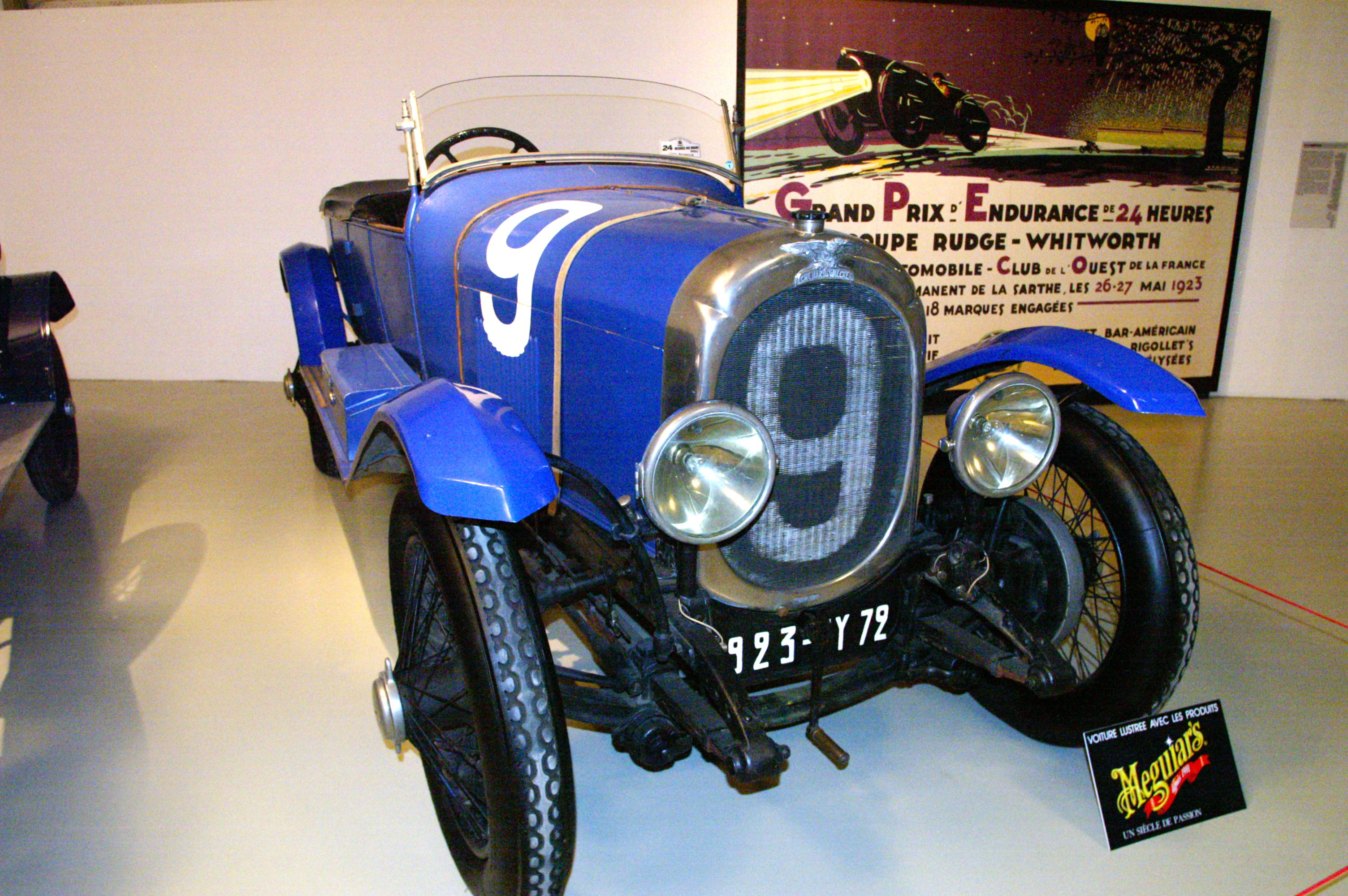 Le Musee des 24 Heures. Winner of the first Le Mans proper in 1923